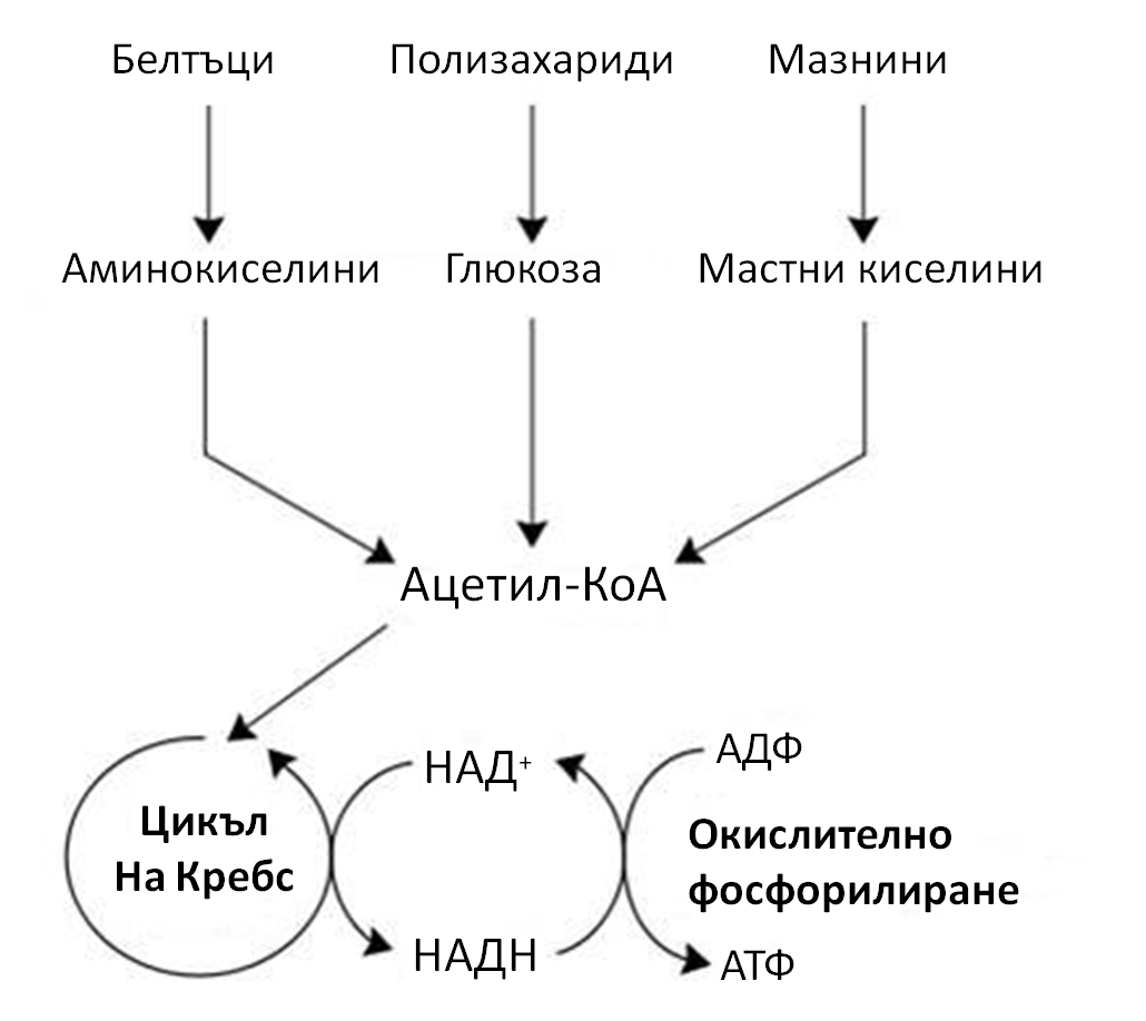 Simplified diagram of catabolism of proteins, carbohydrates and fats.